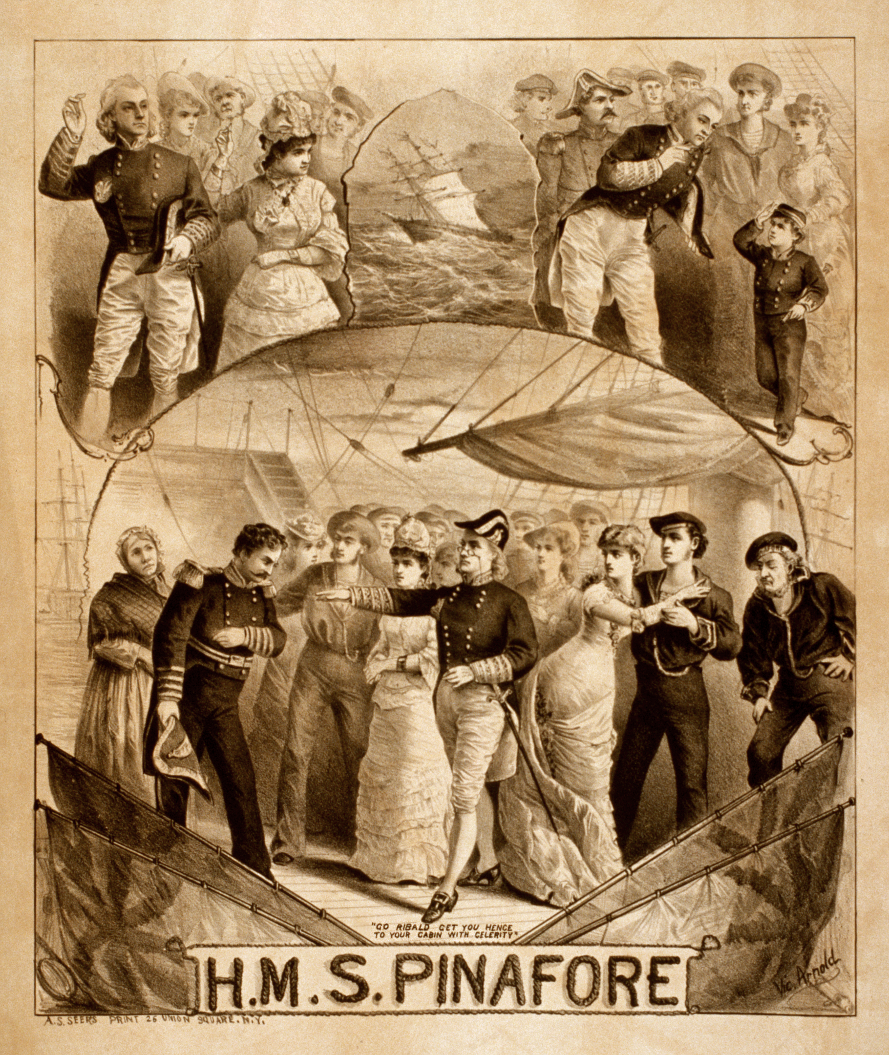 A lithographic poster for one of the many American productions of H.M.S. Pinafore, mostly unlicenced.